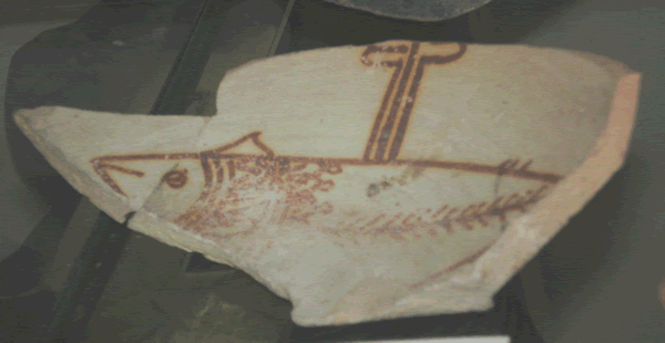 Pottery sherd found at Ain Farah, Sudan; the sherd is christian Nubian